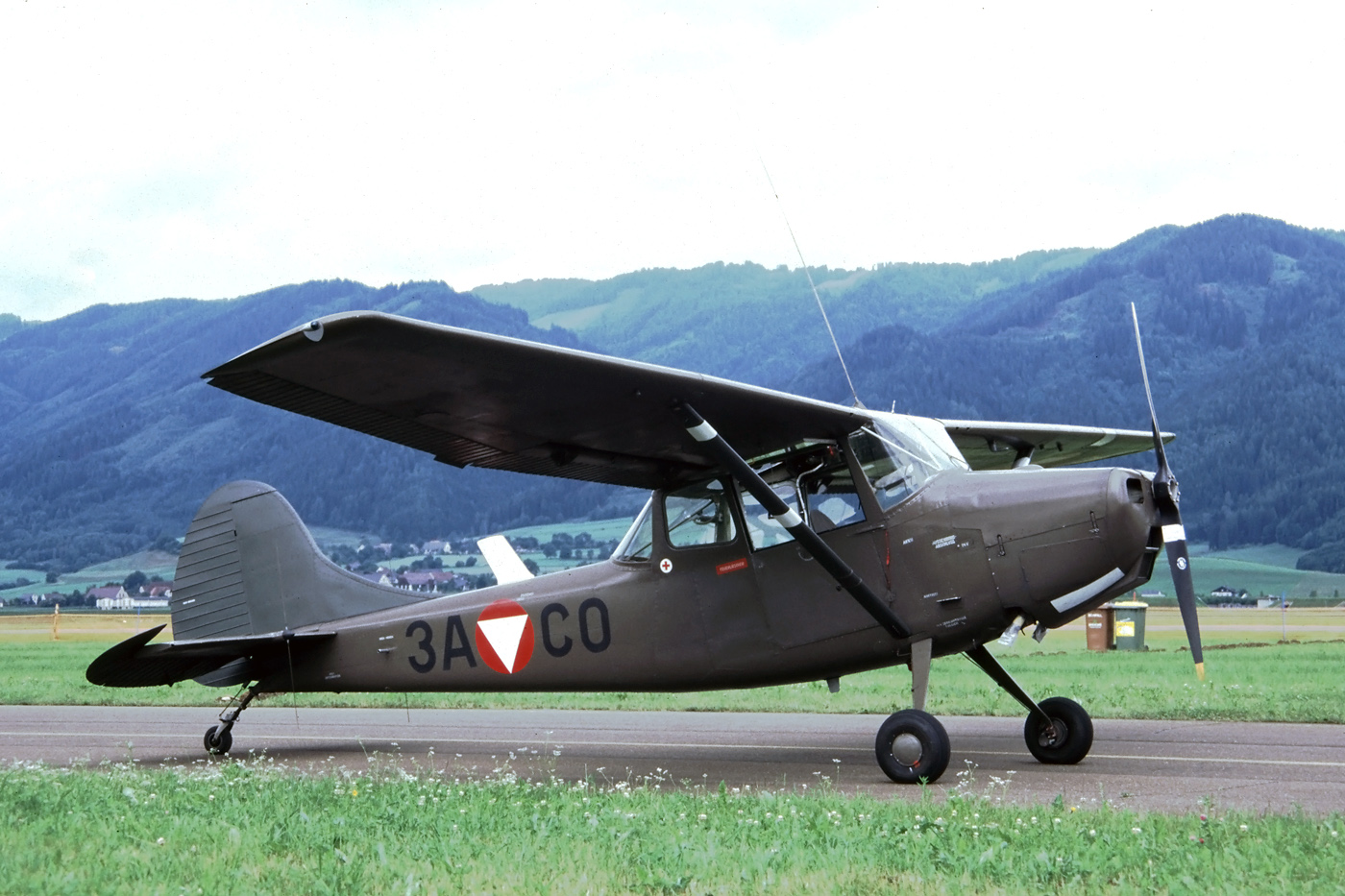 Zeltweg (Austria) in June 1997. Yes, this pretty little machine was still in active service in 1997! One year later it was preserved on the base, so maybe it was of its type.